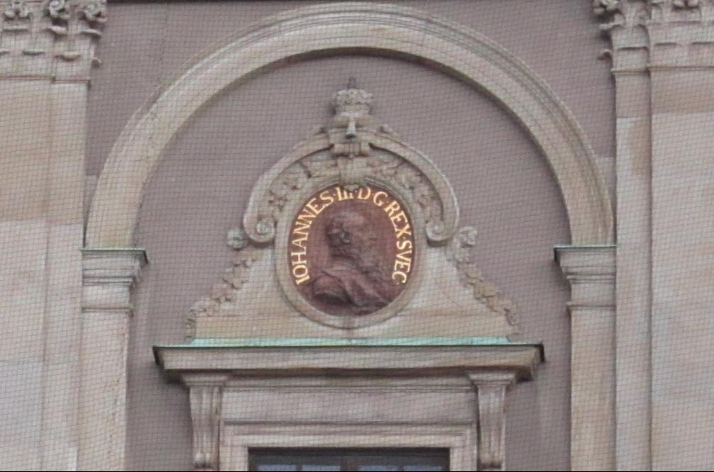 King John III of Sweden, as released by image creator Ristesson HistoryPlace: Stockholm Palace, Sweden